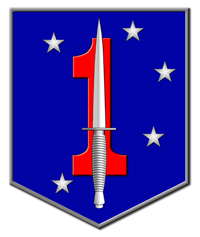 Logo for the 1st Marine Special Operations Battalion